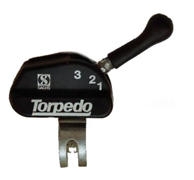 Trigger of a Model H3113S three gear hub made by the german company Fichtel & Sachs.